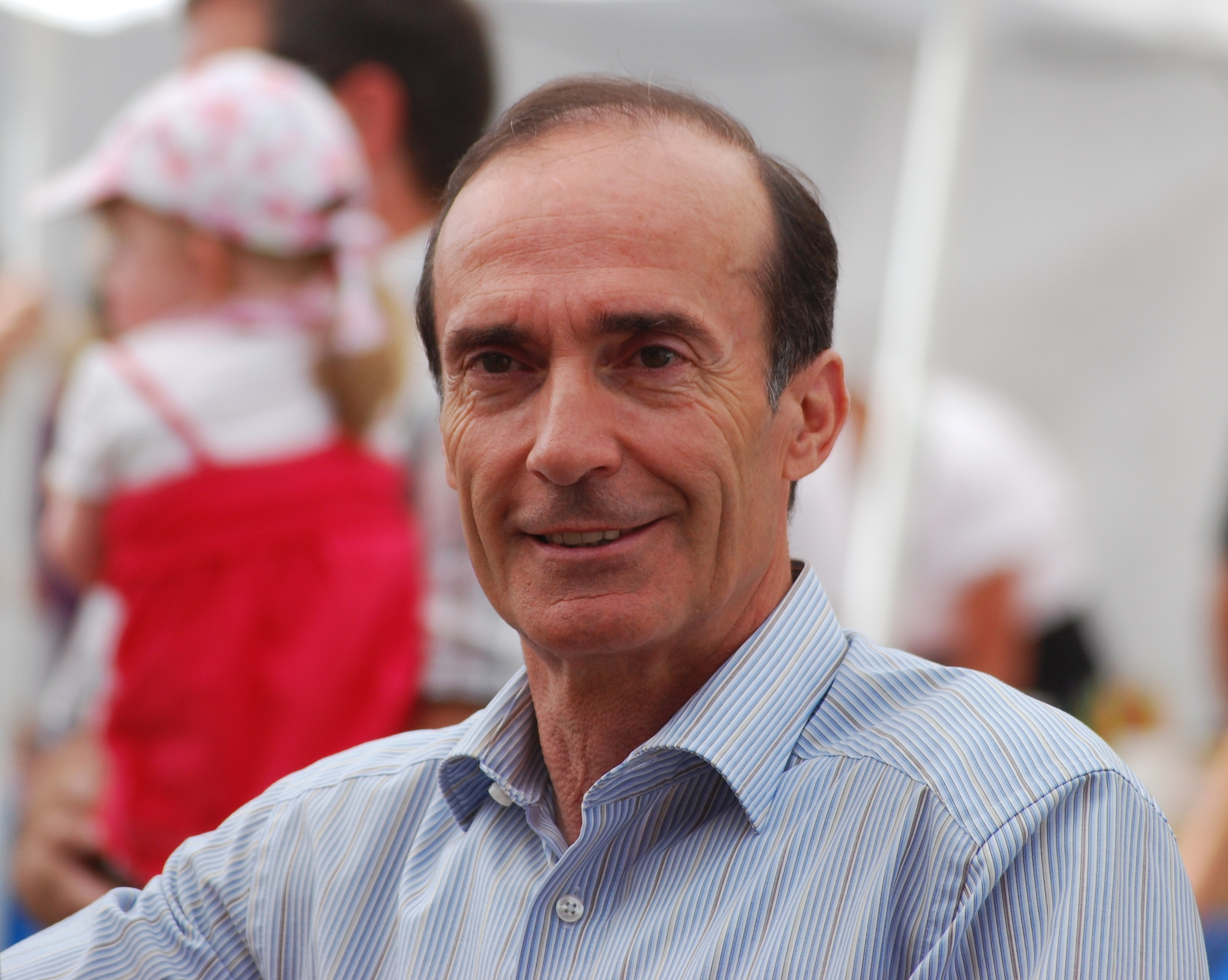 The German politician Eberhard Gienger (CDU)